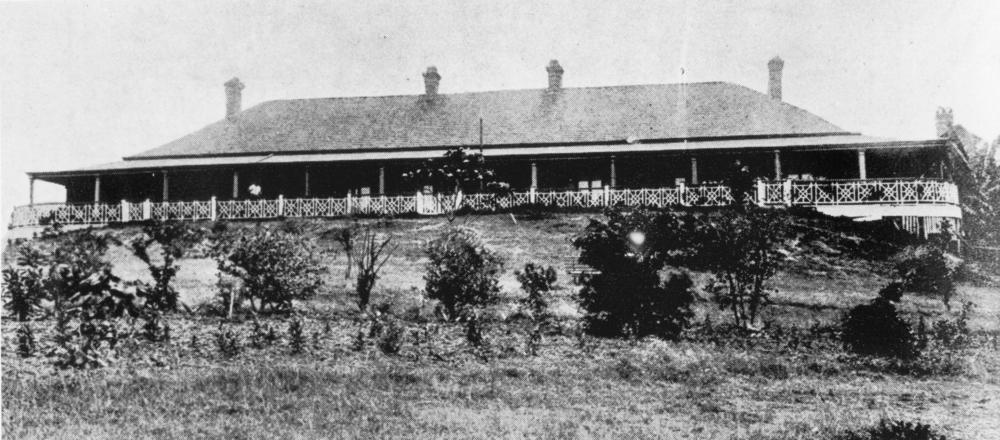 Newstead House, Breakfast Creek, Brisbane, ca. 1920. This historic residence was erected in 1850 and was for some time occupied by Captain Wickham, who then represented the Government of New South Wales in Brisbane. Afterwards it was the home of Mr. George Harris. (Information taken from: The Queenslander, 25 December 1920).